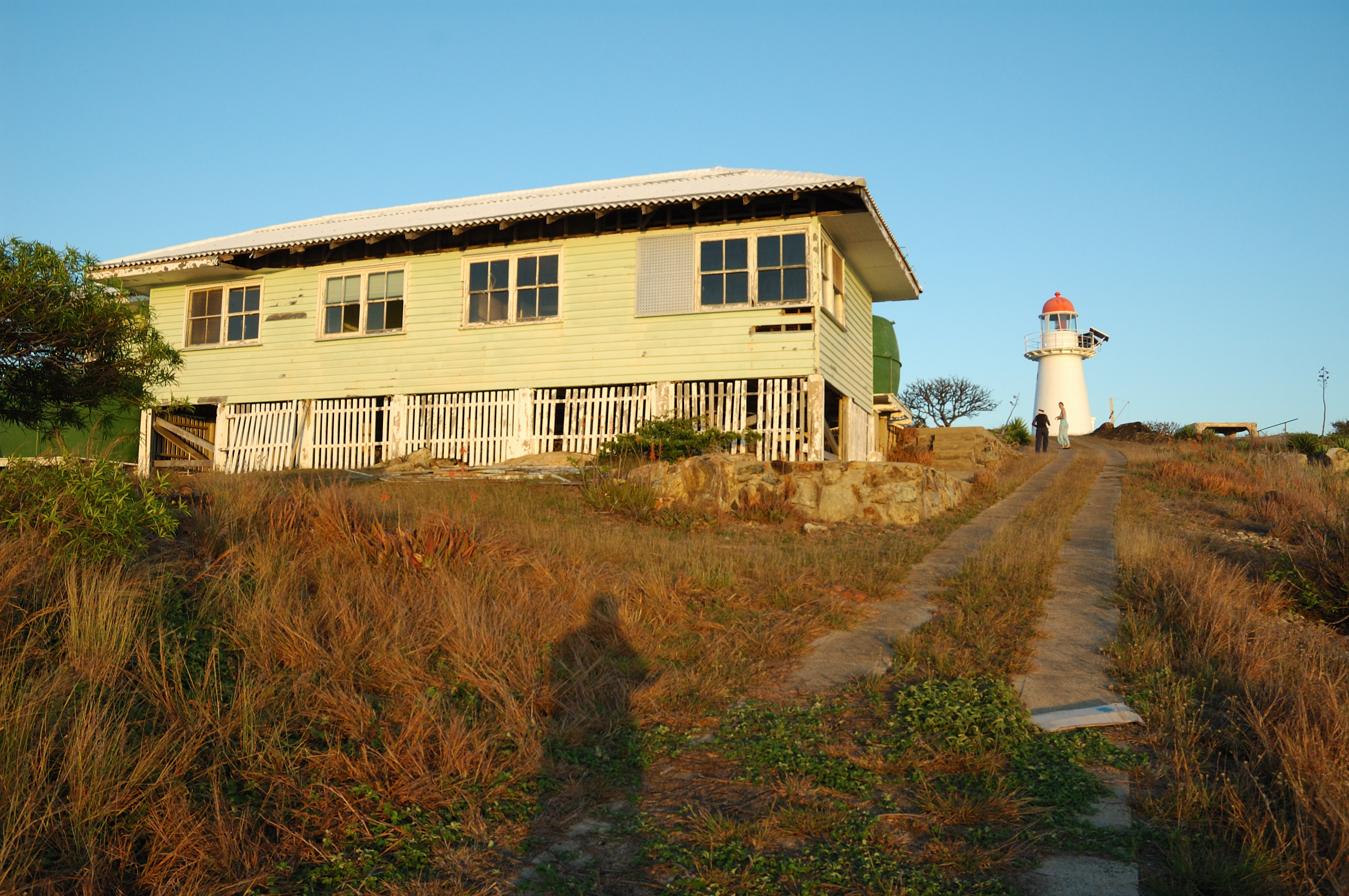 Cape Cleveland lightstation, one of the houses